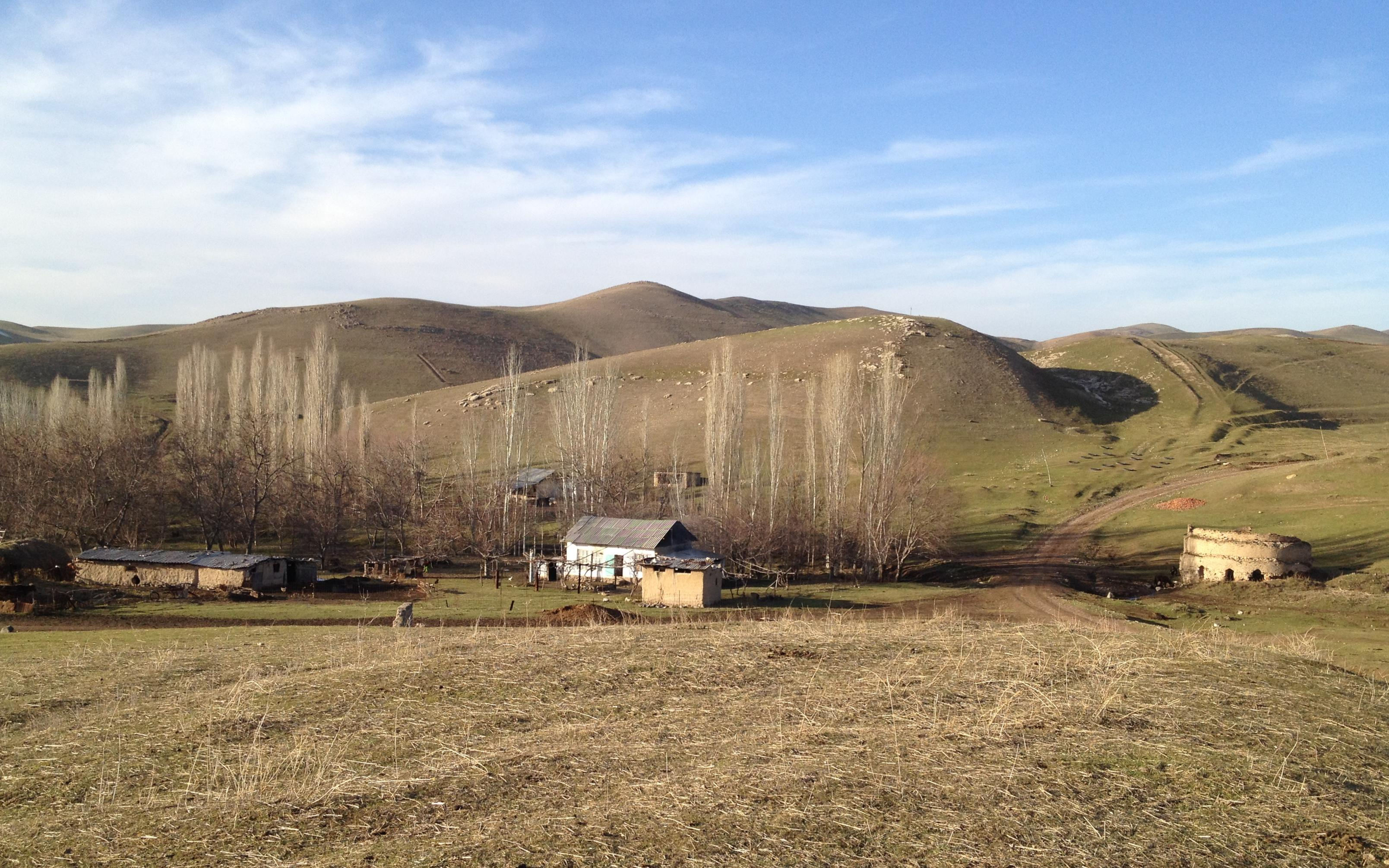 Qaynar village (Okhangaron district) and Qaynar ab-anbar